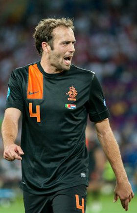 Joris Mathijsen during Euro 2012 match between Portugal and Netherlands on 17 June 2012